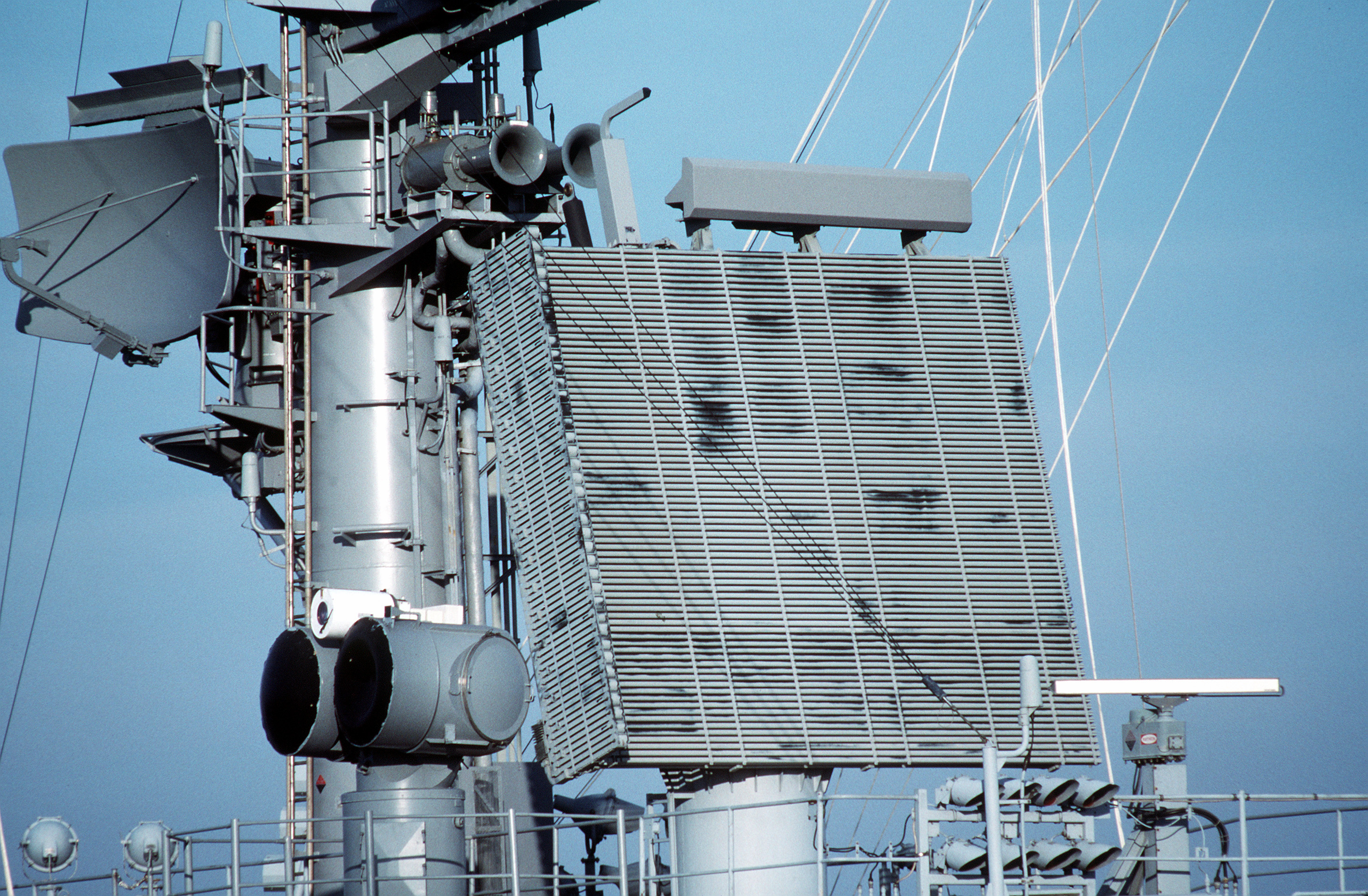 A view of the SPS-48B 3-D search radar antenna on the nuclear-powered aircraft carrier USS THEODORE ROOSEVELT (CVN-71). The SPN PL-173P carrier-controlled approach (CCA) radar is seen at the upper left while the SPS-65 antennas of the Mark 91 Fire Control System are at the bottom left. The small white bar antenna is the SPS-64(V)9 radar unit. Location: NAVAL AIR STATION, NORFOLK, VIRGINIA (VA) UNITED STATES OF AMERICA (USA)